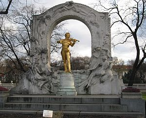 Johann Strauß, the "waltz king".